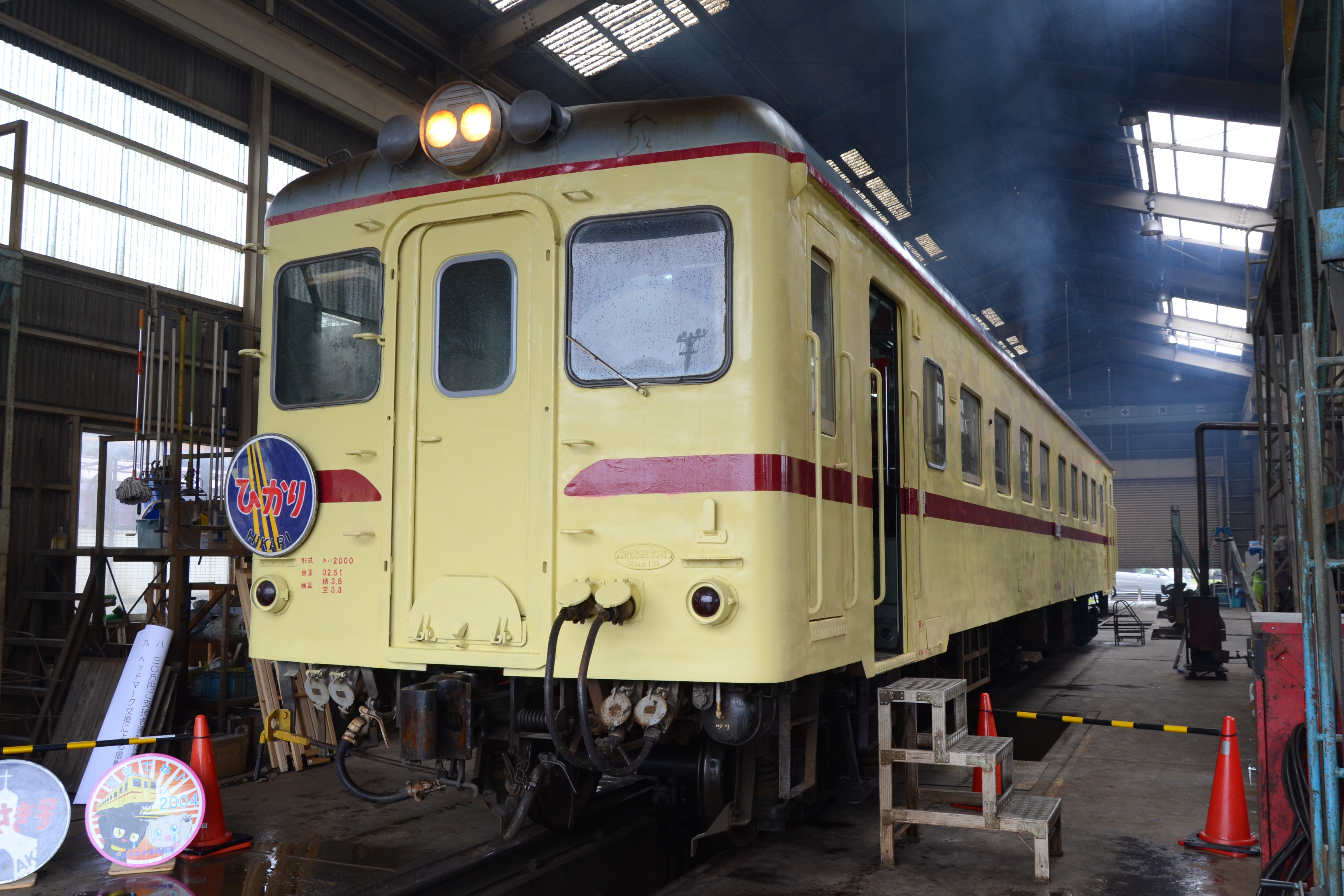 Former Hitachinaka Seaside Railway KiHa 2000 series DMU car KiHa 2004 inside Kanada Depot on the Heisei Chikuho Railway in Fukuoka Prefecture, Japan